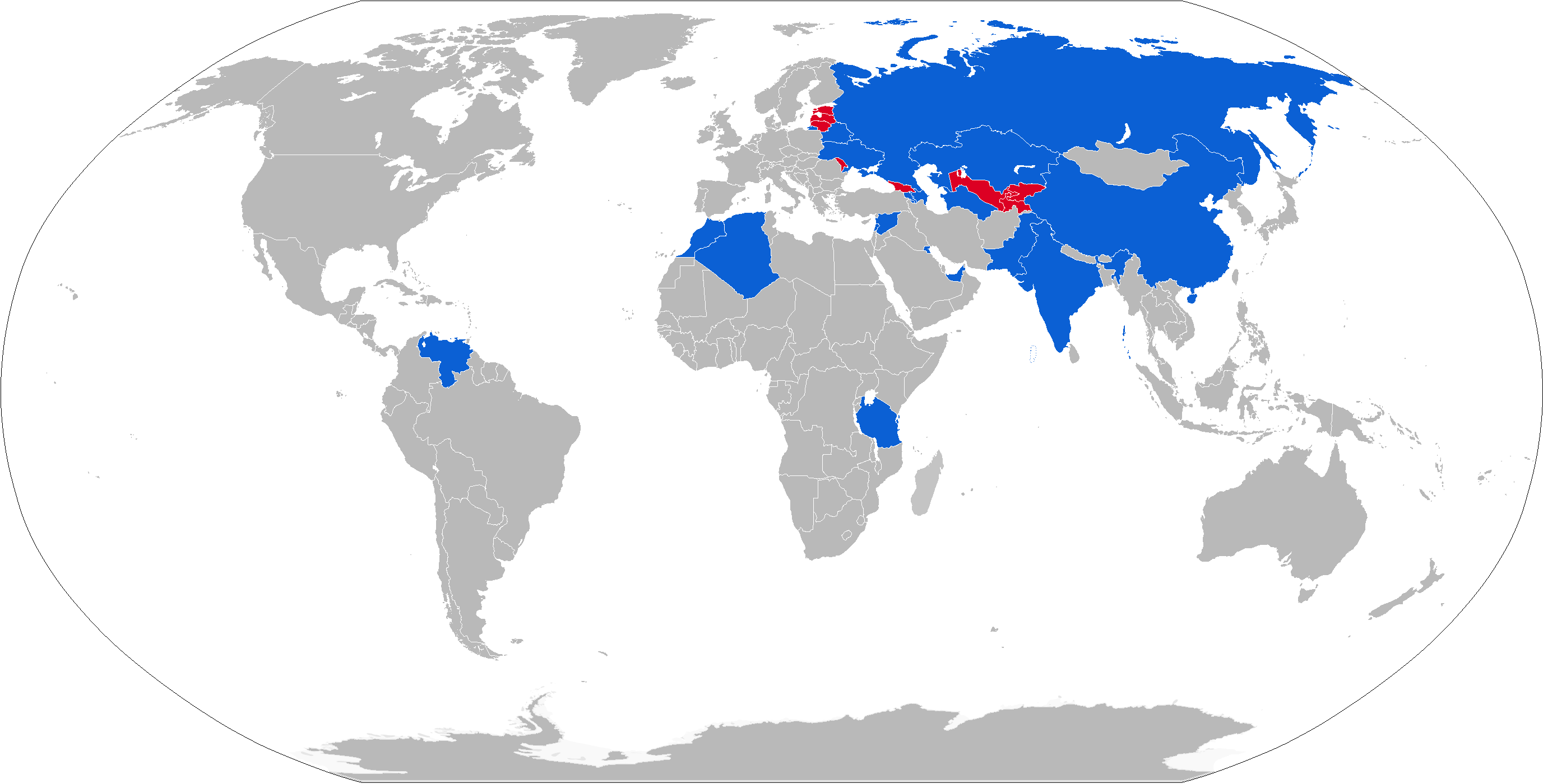 Map of BM-30 operators in blue with former operators in red